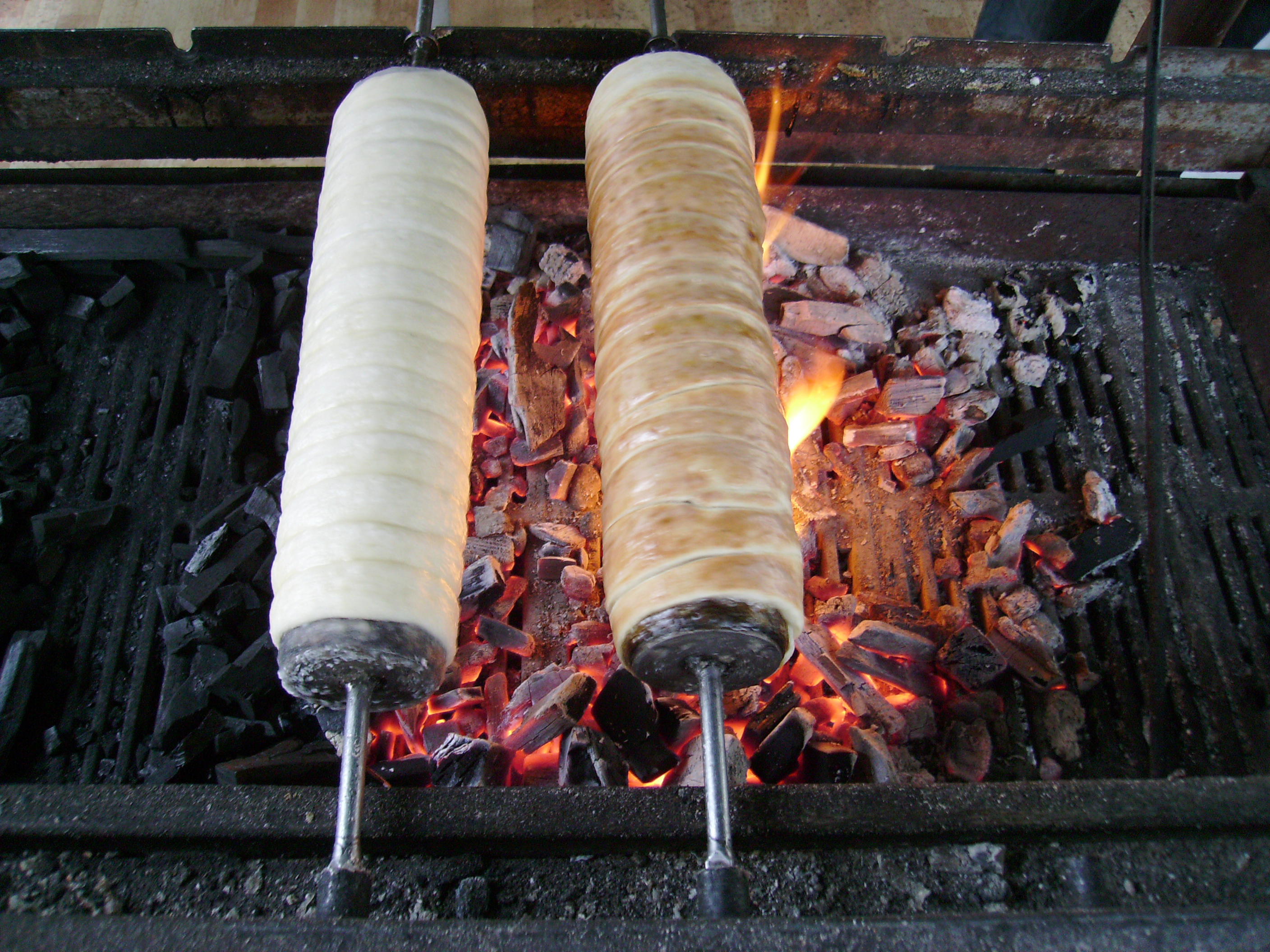 Kürtőskalács, Transylvanian pastry Location: Cluj-Napoca.